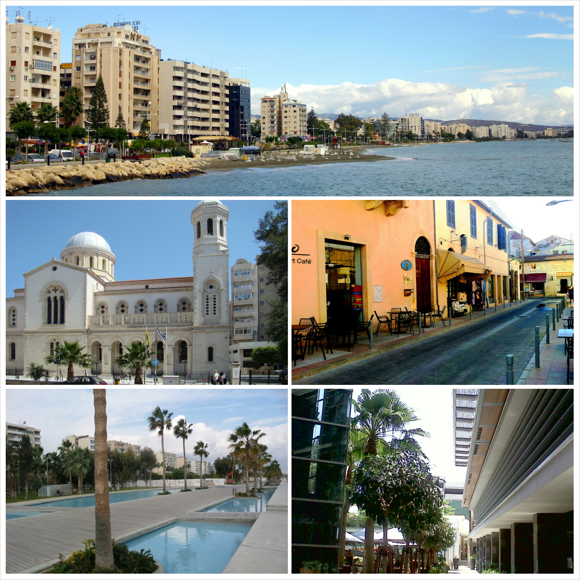 Photo montage of Limassol, Cyprus